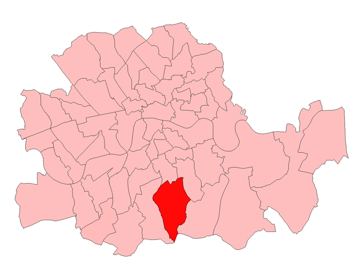 A map of Dulwich constituency within the London County Council area, as it existed from 1918 to 1949.